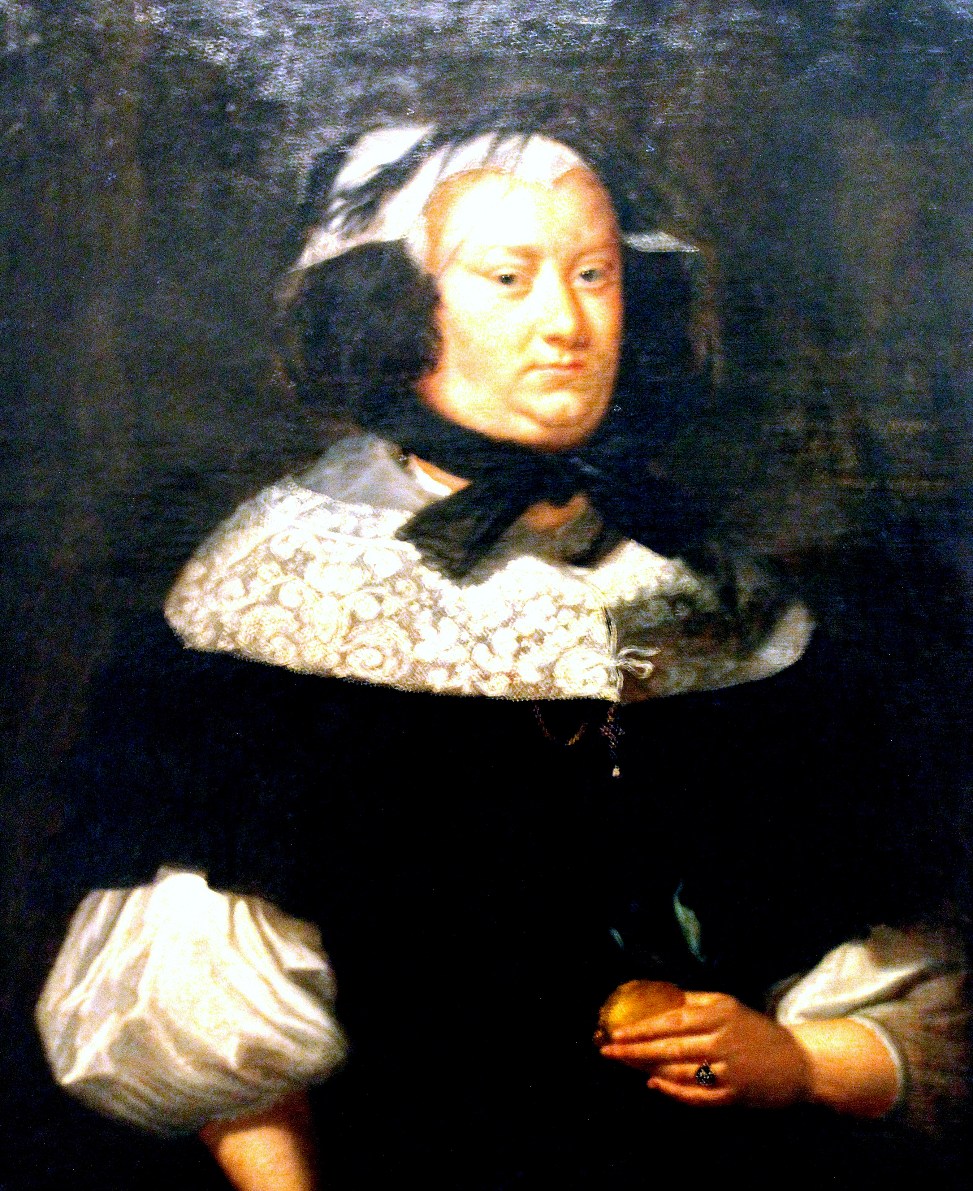 Würzburg, Mainfränkisches Museum, Oswald Onghers, portret of Barbara Amling